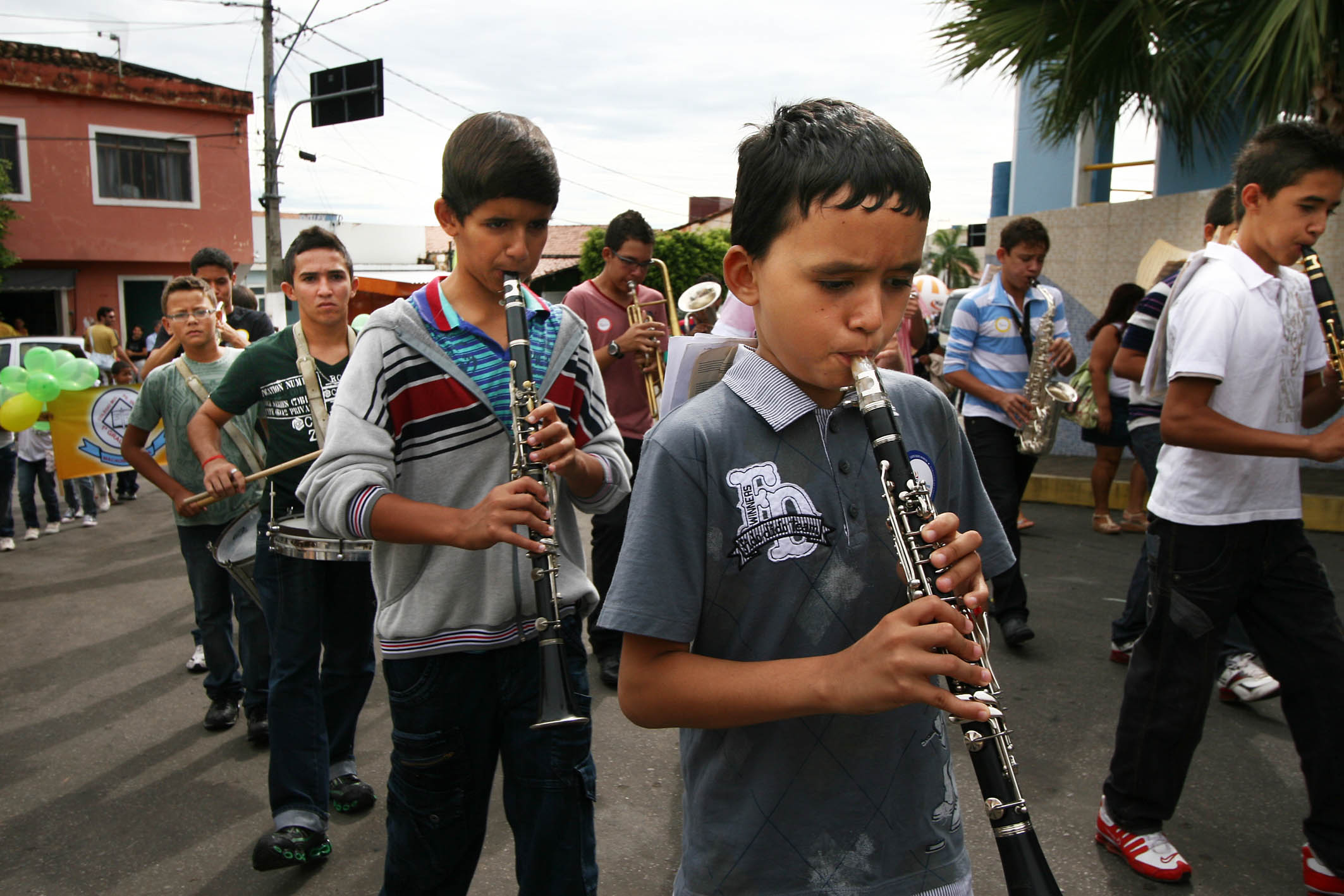 Caravana do Programa de Erradicação do Trabalho Infantil em MacaúbasFoto: Carol Garcia / SECOM